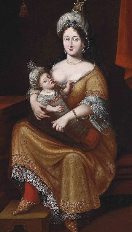 probably Kösem Sultan and her son Murad or Ibrahim